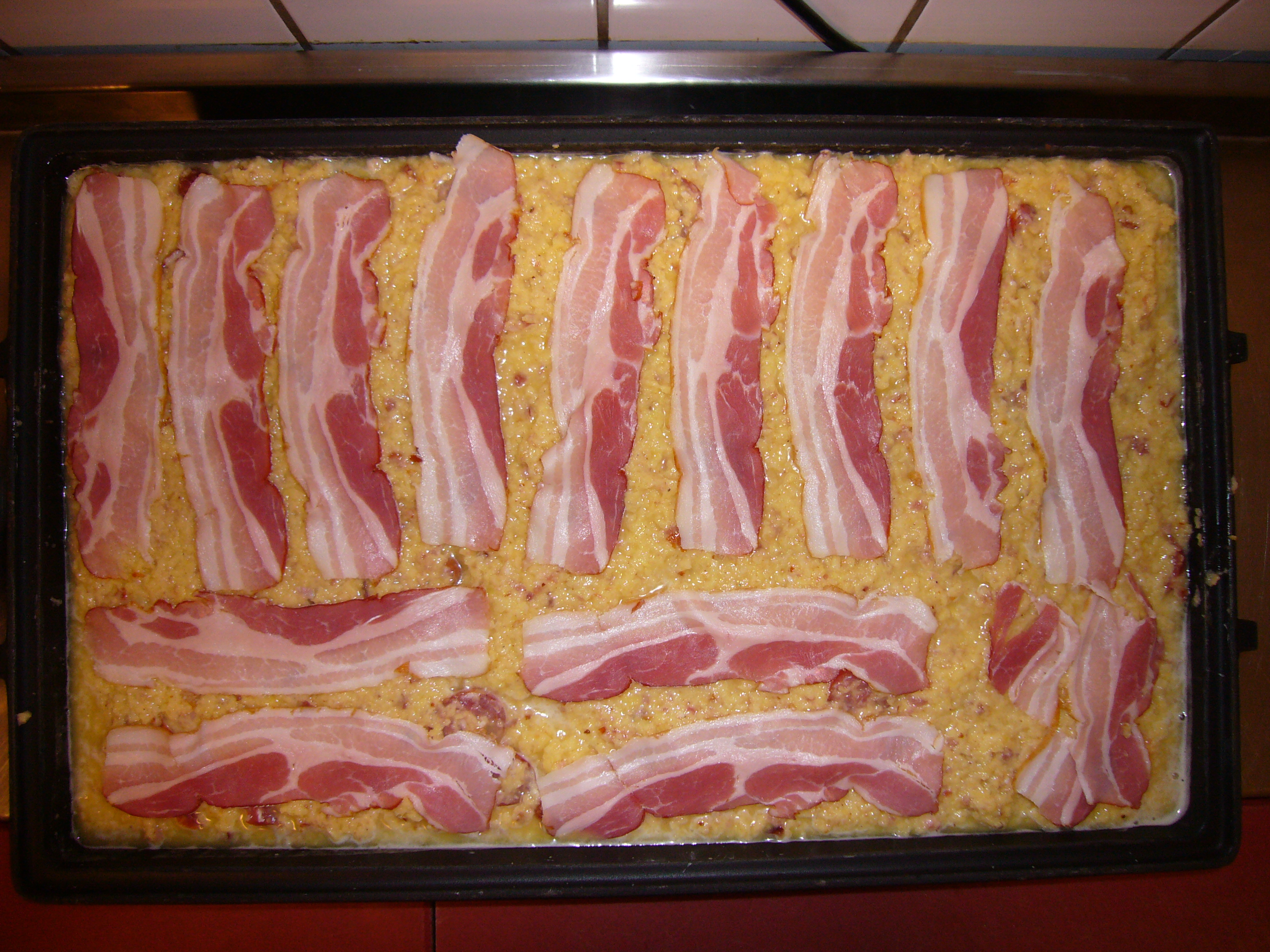 "Uhles" as made in Linz/Rhine (Potatoes, milk-soaked rolls, eggs, sausages, nutmeg, salt, bacon) ready to be sent to the oven for 2 hours